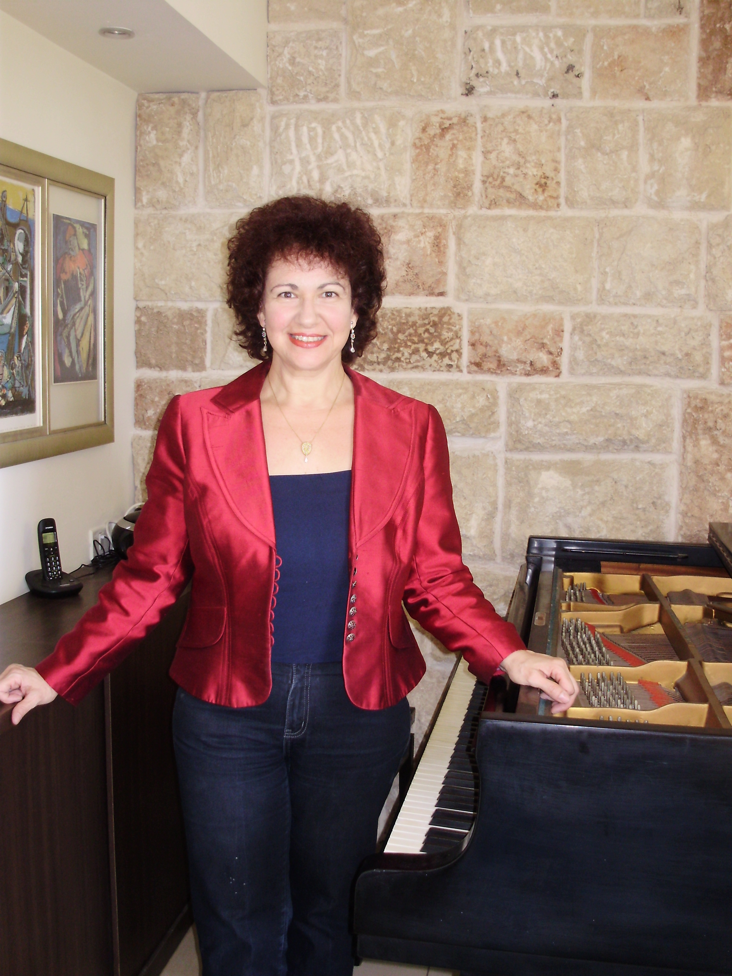 Astrith Baltsan at the piano in her house, Tel Aviv